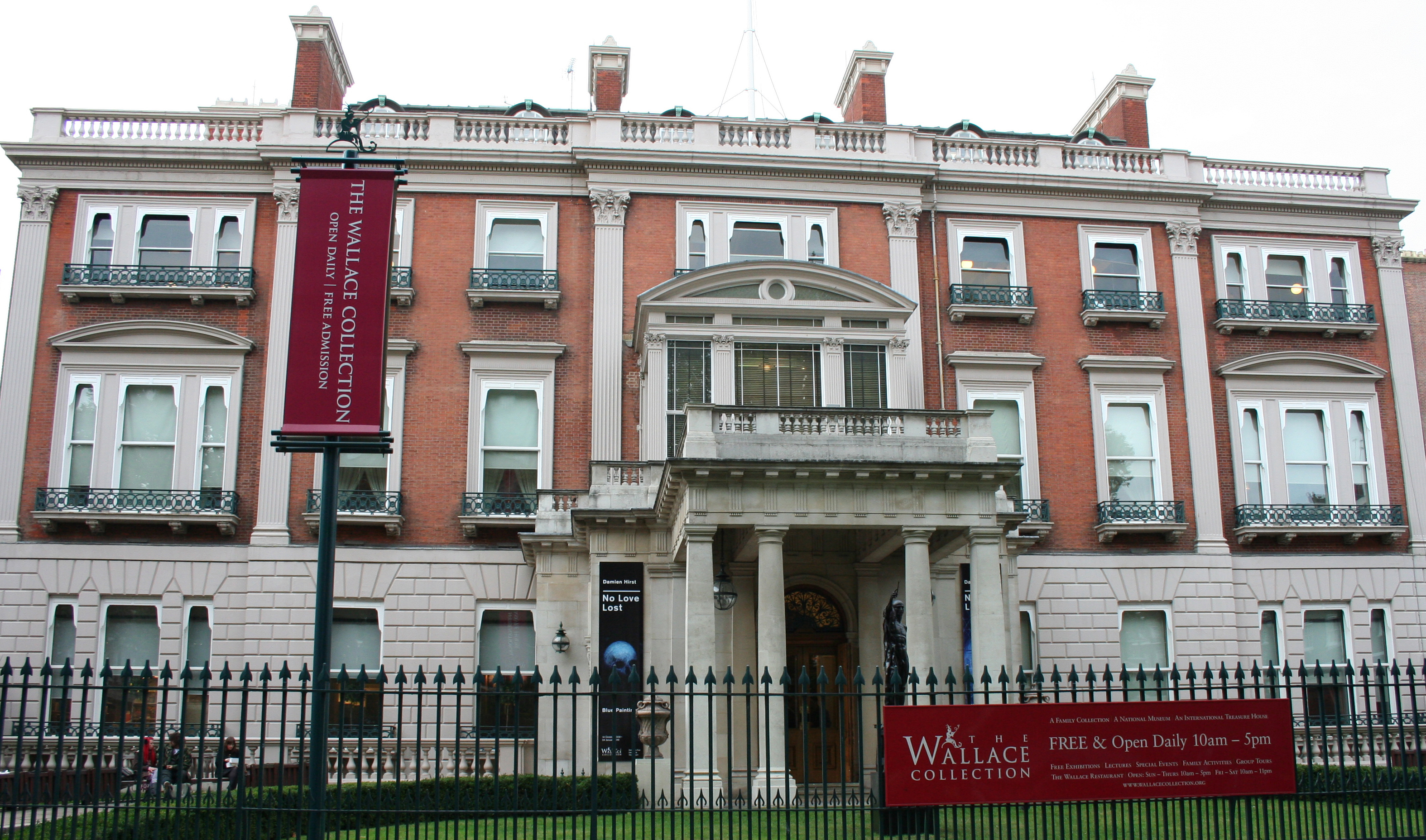 Manchester House, London - now home of the Wallace Collection